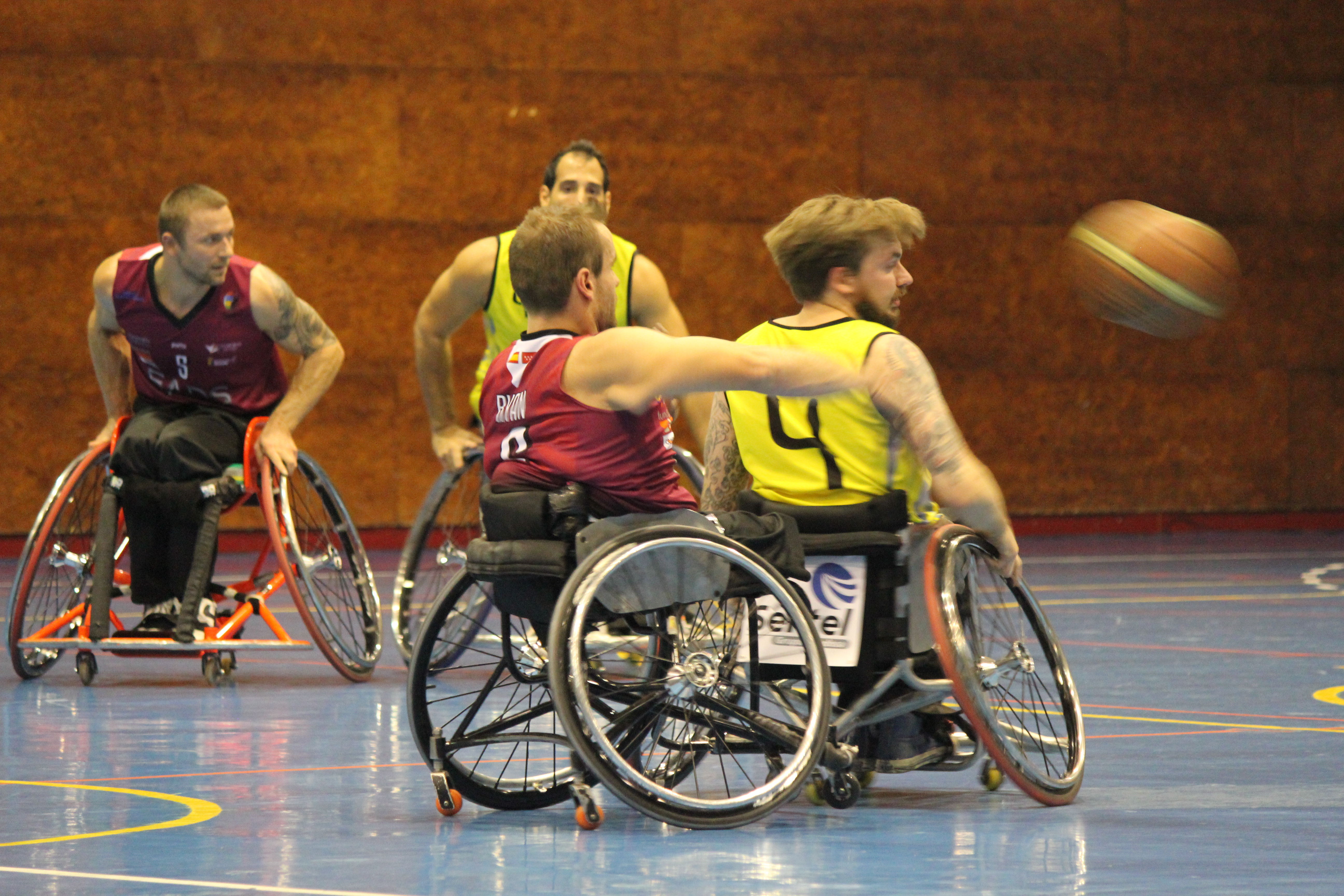 ONCE v Getafe, Madrid, November 9, 2013